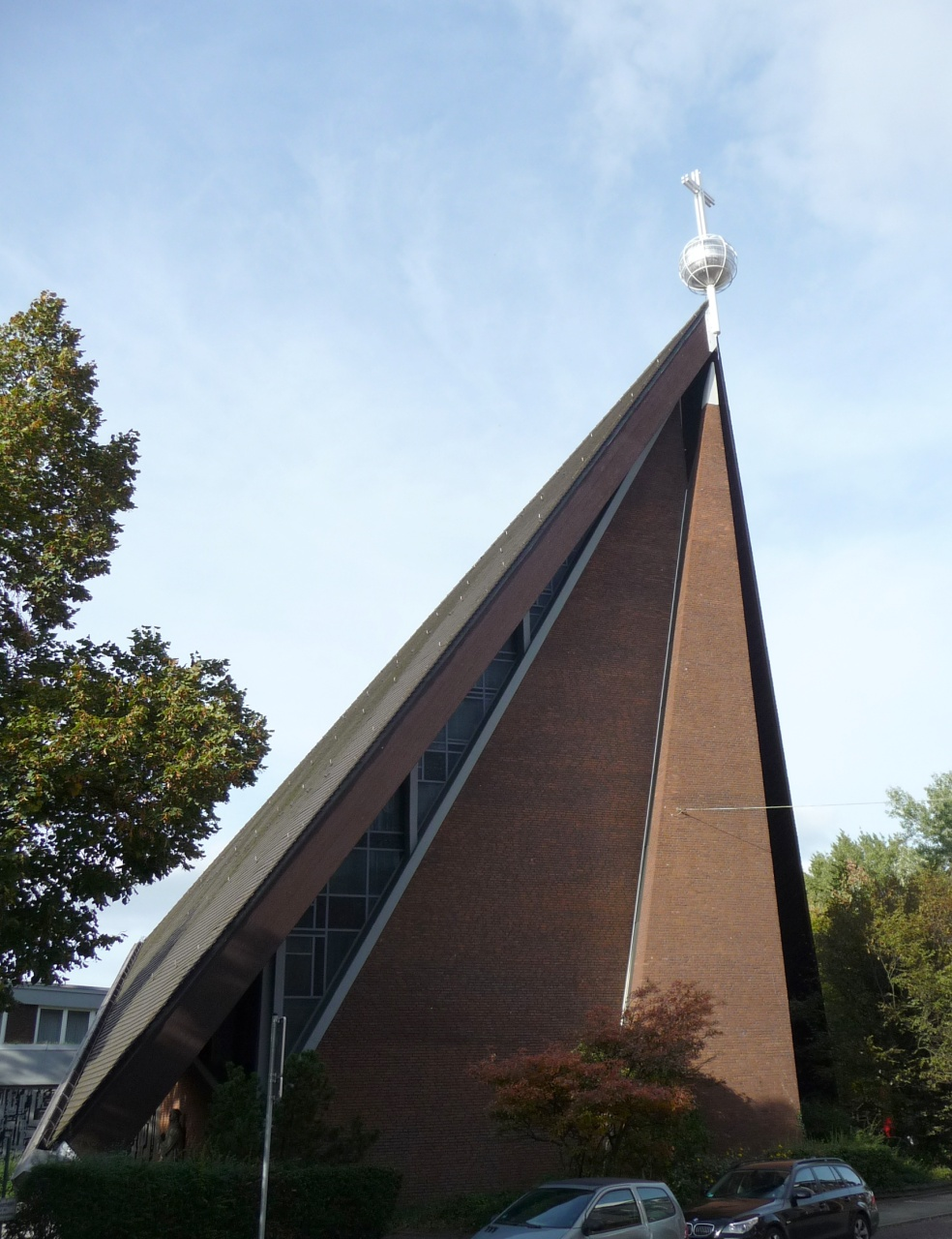 Church St. Michaelis in Bremen-Mitte